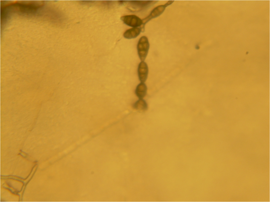 Spore chain of Alternaria alternata Magnified 160X. Identified using Barnett, H. L. & Hunter, B. B. (1998) Illustrated Genera of Imperfect Fungi. APS Press: St. Paul, MN; pp. 132–3 ISBN 0-89054-192-2. Recovered from mountain snowberry (Symphoricarpos oreophilus Gray var. utahensis (Rydb.) A. Nels.). Host status confirmed using Farr, D. F., Bills, G. F., Chamuris, G. P., & Rossman, A. Y. (1995) Fungi on Plants and Plant Products in the United States. APS Press: St. Paul, MN; pp. 126–7 ISBN 0-89054-099-3.